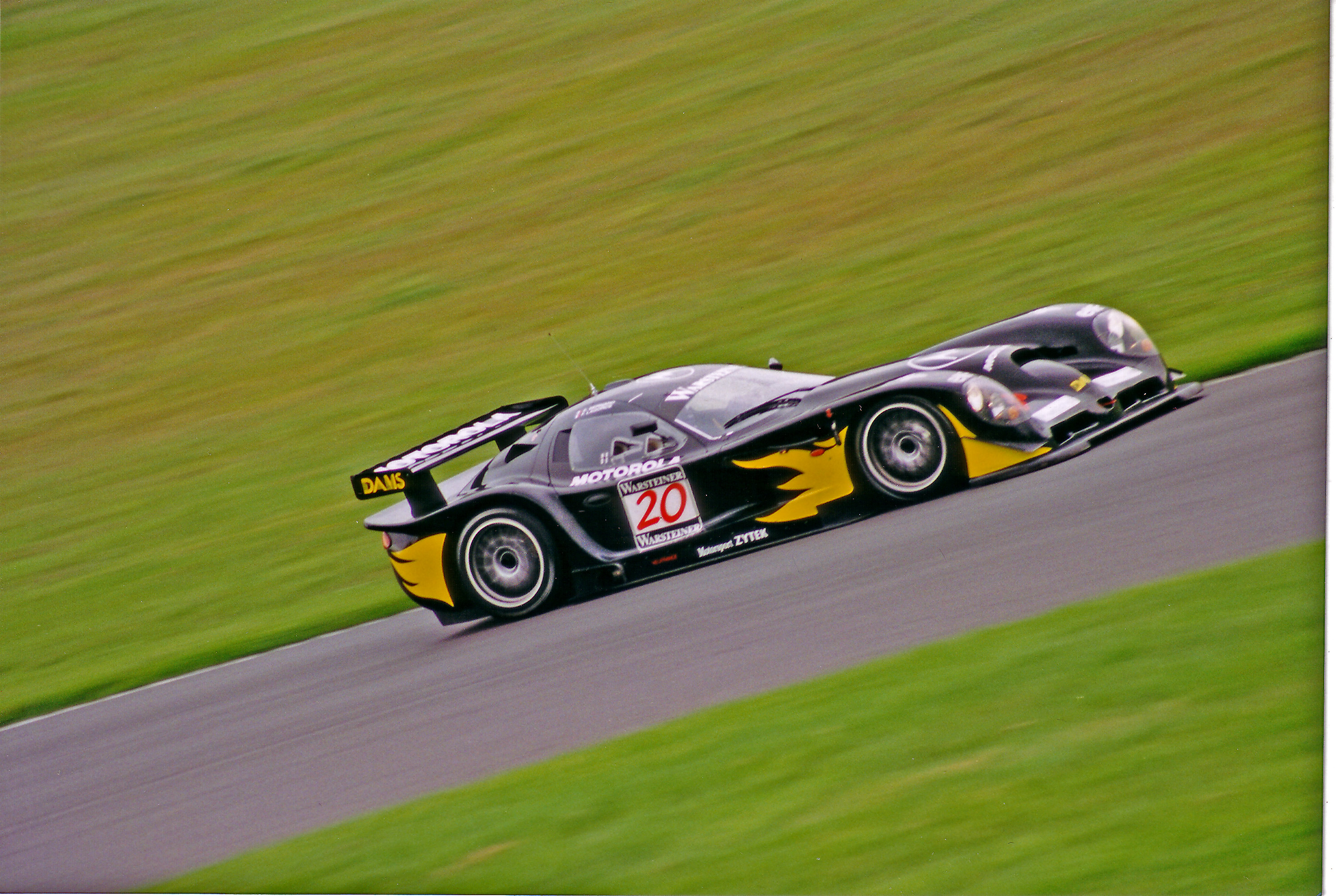 Eric Bernard , Dams Panos GT1 Scanned from 35mm Canon EOS 100